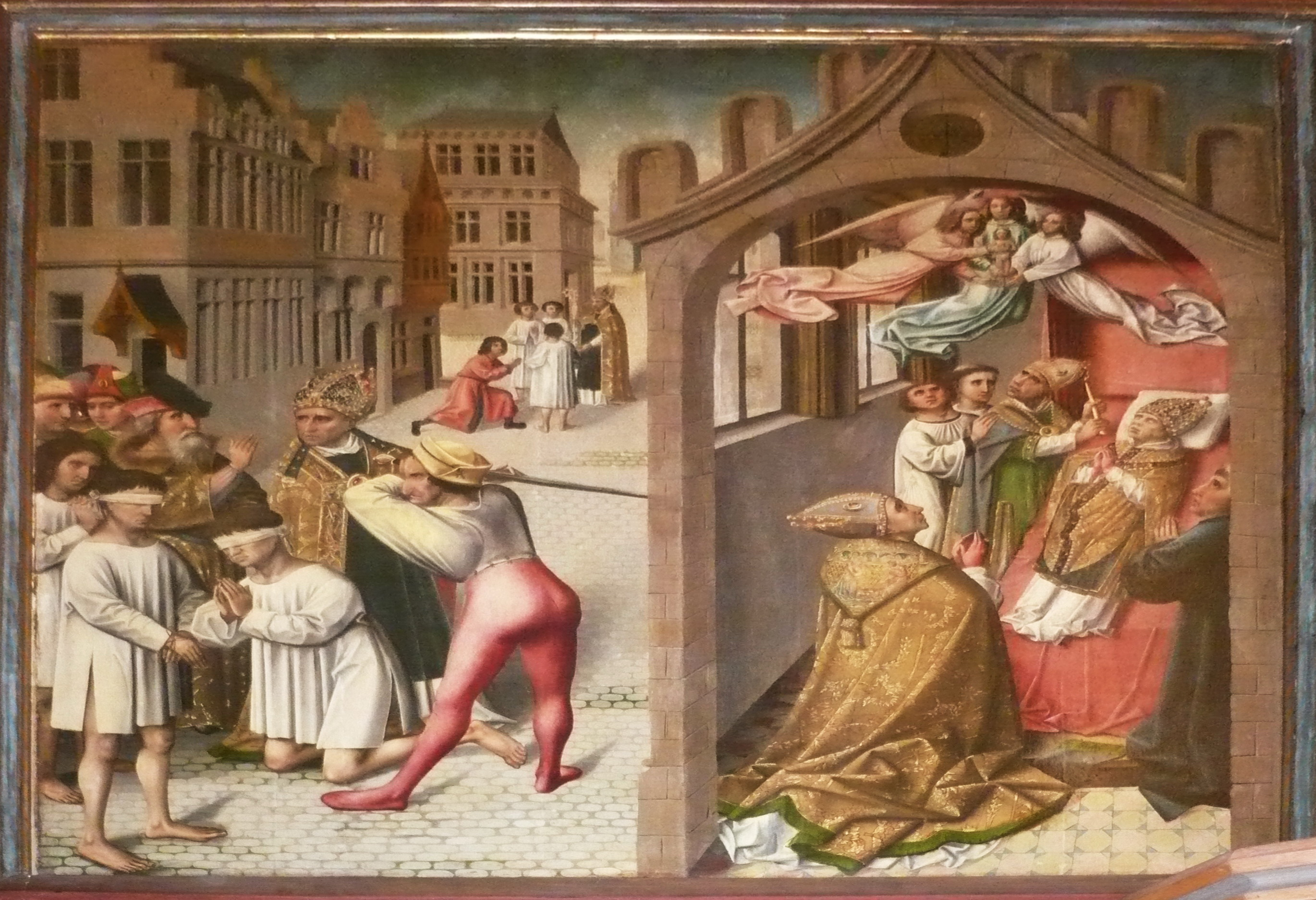 Altar pieces from Orsoy.